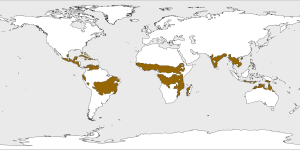 Tropical savanna climate (Aw).